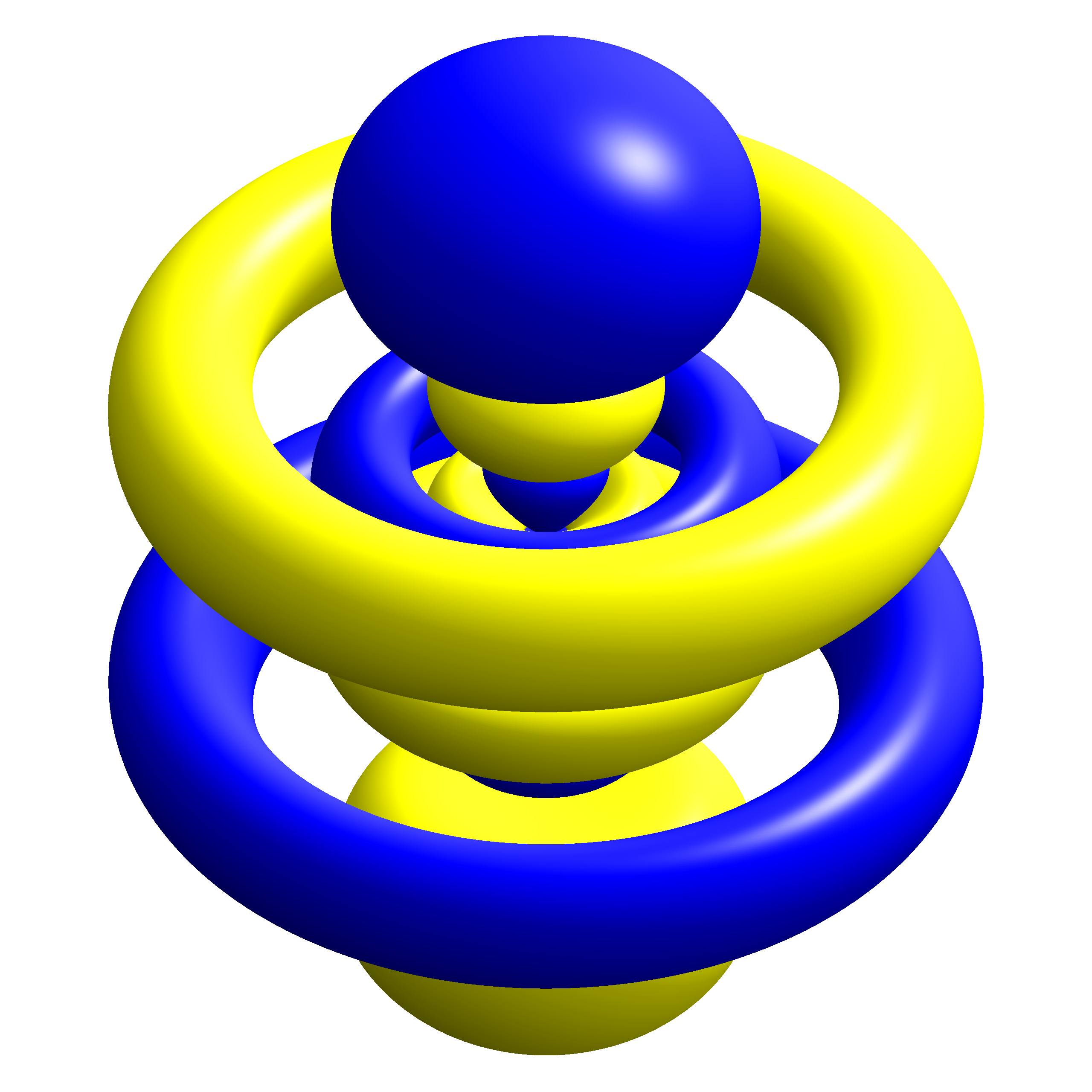 Calculated 6f0 orbital of an electron's eigenstate in the Coulomb-field of a hydrogen nucleus. An eigenstate is a state which keeps it's shape except for a complex phase when the Hamilton operator is applied, thus being invariant in time while obeying the Schrödinger equation. The wavefunction is: ψ 6 , 3 , 0 ( r , ϑ , φ ) = ( 1 3 a 0 ) 3 1 6 ⋅ 9 ! ⋅ e − r / ( 6 a 0 ) ⋅ ( 1 r 3 a 0 ) 3 ⋅ L 2 7 ( r / ( 3 a 0 ) ) ⋅ Y 3 0 ( ϑ , φ ) {\displaystyle \psi _{6,3,0}(r,\vartheta ,\varphi )={\sqrt \left({\frac {1}{3\,a_{0 }\right)}^{3}{\frac {1}{6\cdot 9! \cdot e^{\textstyle -r/(6\,a_{0})}\cdot \left({\frac {1\,r}{3\,a_{0 }\right)^{3}\cdot L_{2}^{7}(r/(3\,a_{0}))\cdot Y_{3}^{0}(\vartheta ,\varphi )} The state is an eigenstate of H, L² and Lz, which constitute a complete set of commuting observables. The quantum numbers mean that the following quantities have a sharp certain value: n = 6: Energy: E = − 1 R y / n 2 = − 13.6 e V / 36 {\displaystyle E=-1\,\mathrm {Ry} /n^{2}=-13.6\,\mathrm {eV} /36} l = 3: Angular momentum: | L | = l ( l + 1 ) ℏ = 2 3 ℏ {\displaystyle |L|={\sqrt {l\,(l+1) \,\hbar =2{\sqrt {3 \,\hbar } m = 0: Angular momentum in z-direction: L z = m ℏ = 0 {\displaystyle L_{z}=m\,\hbar =0} Since l=3, this is called a f-orbital. The orbital is aligned around the z-axis, but remains an eigenfunction of H and L² if rotated to any direction. The depicted rigid body is where the probability density exceeds a certain value. The color shows the complex phase of the wavefunction, where blue means real positive, red means imaginary positive, yellow means real negative and green means imaginary negative. The image is raytraced using modified Phong lighting. The fine structure is neglected.